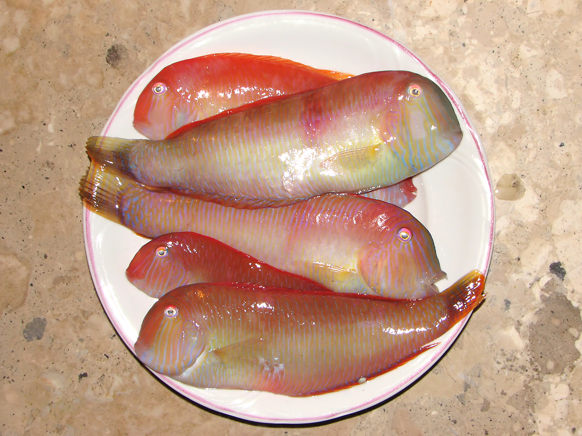 Xyrichtys novaculae caught in Santorini, Greece.